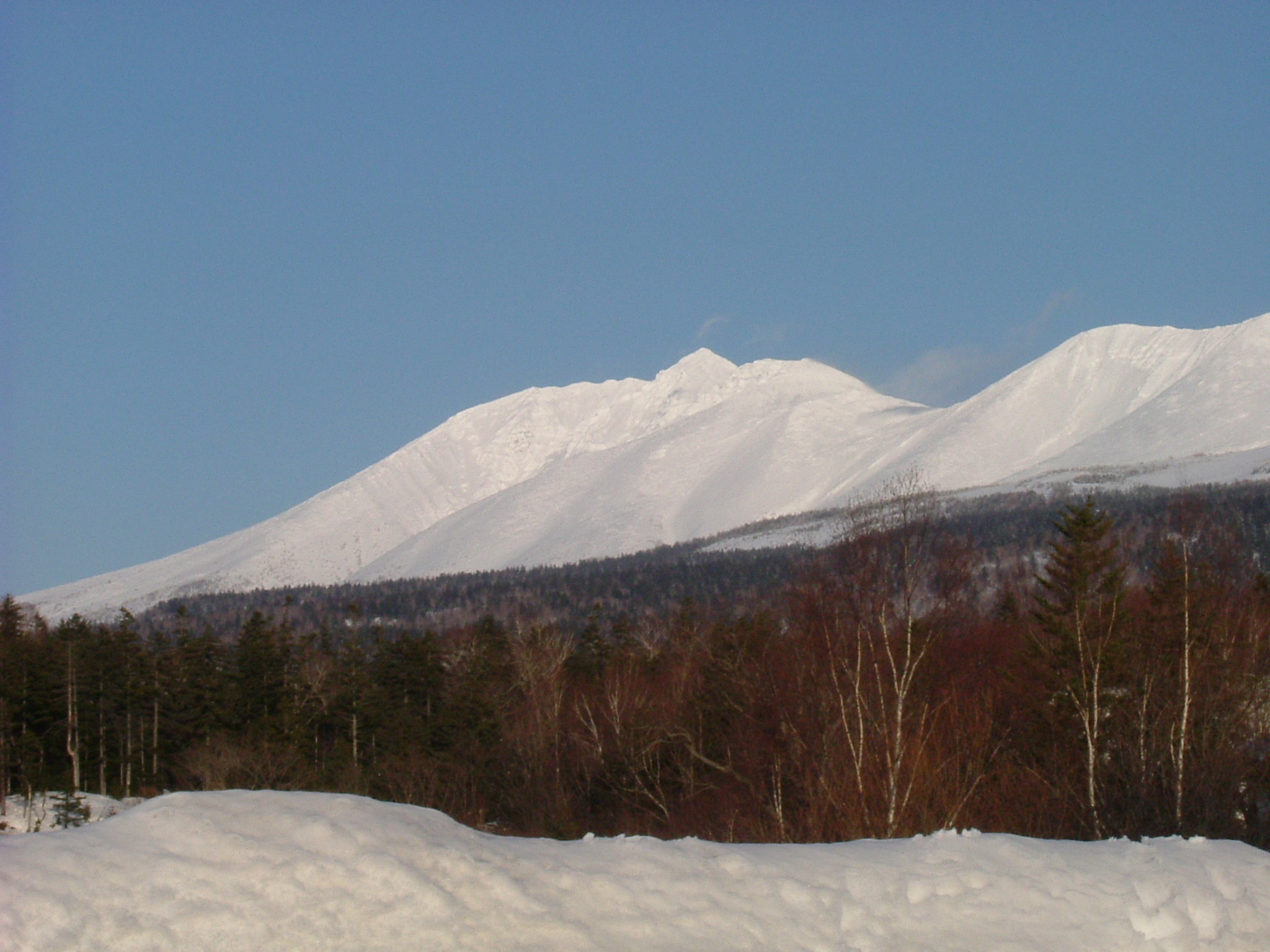 Mount Oputateshike seen from the West.